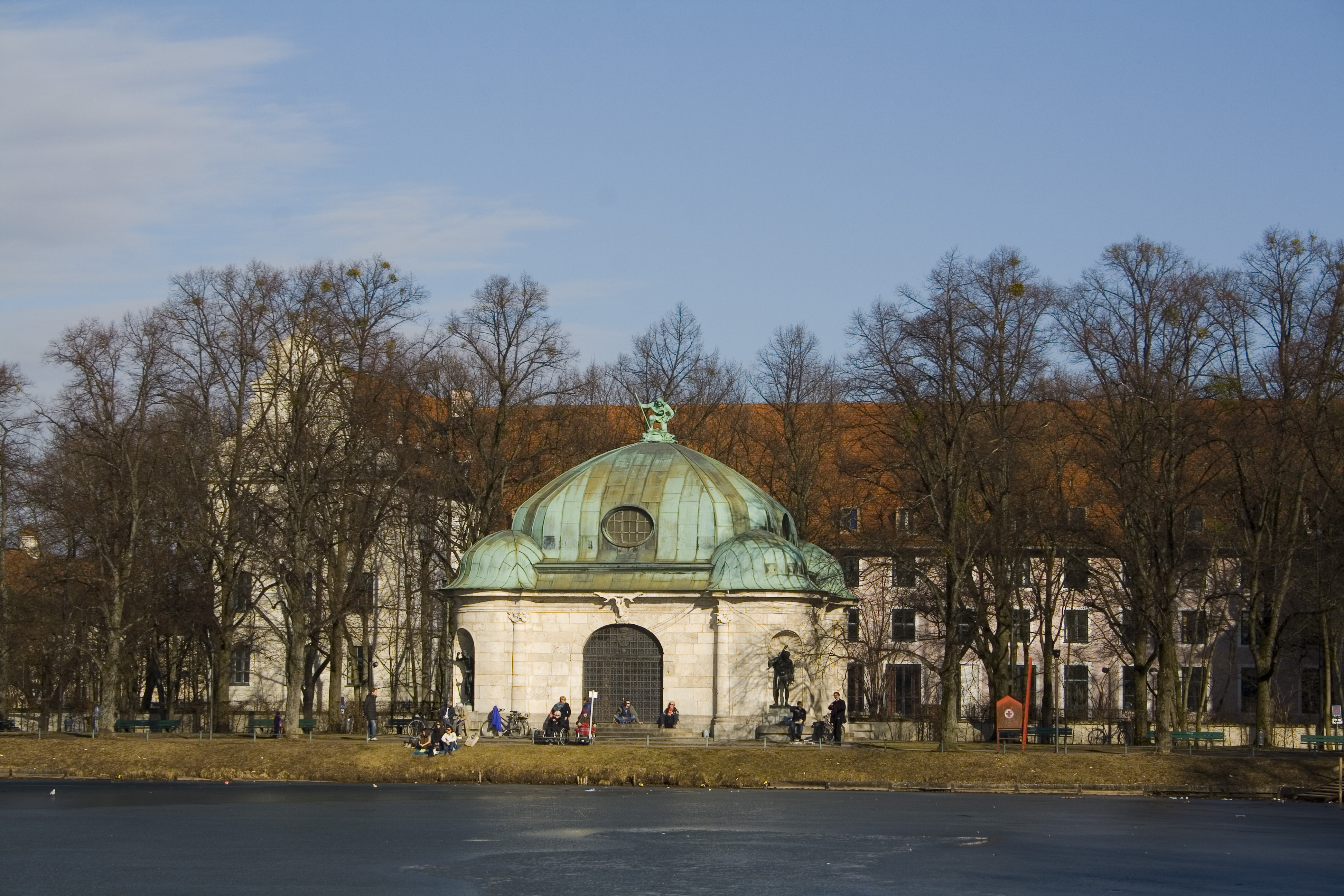 Hubertusbrunnen, Munich, Germany